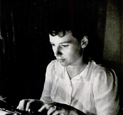 Shelley Smith Mydans reporting in China during the 2nd World war - taken by her husband and reported in Life Magazine - LIFE 23 Feb 1942